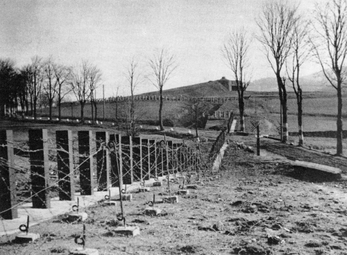 Damming road Mladkov - Lichkov (Munich crisis)